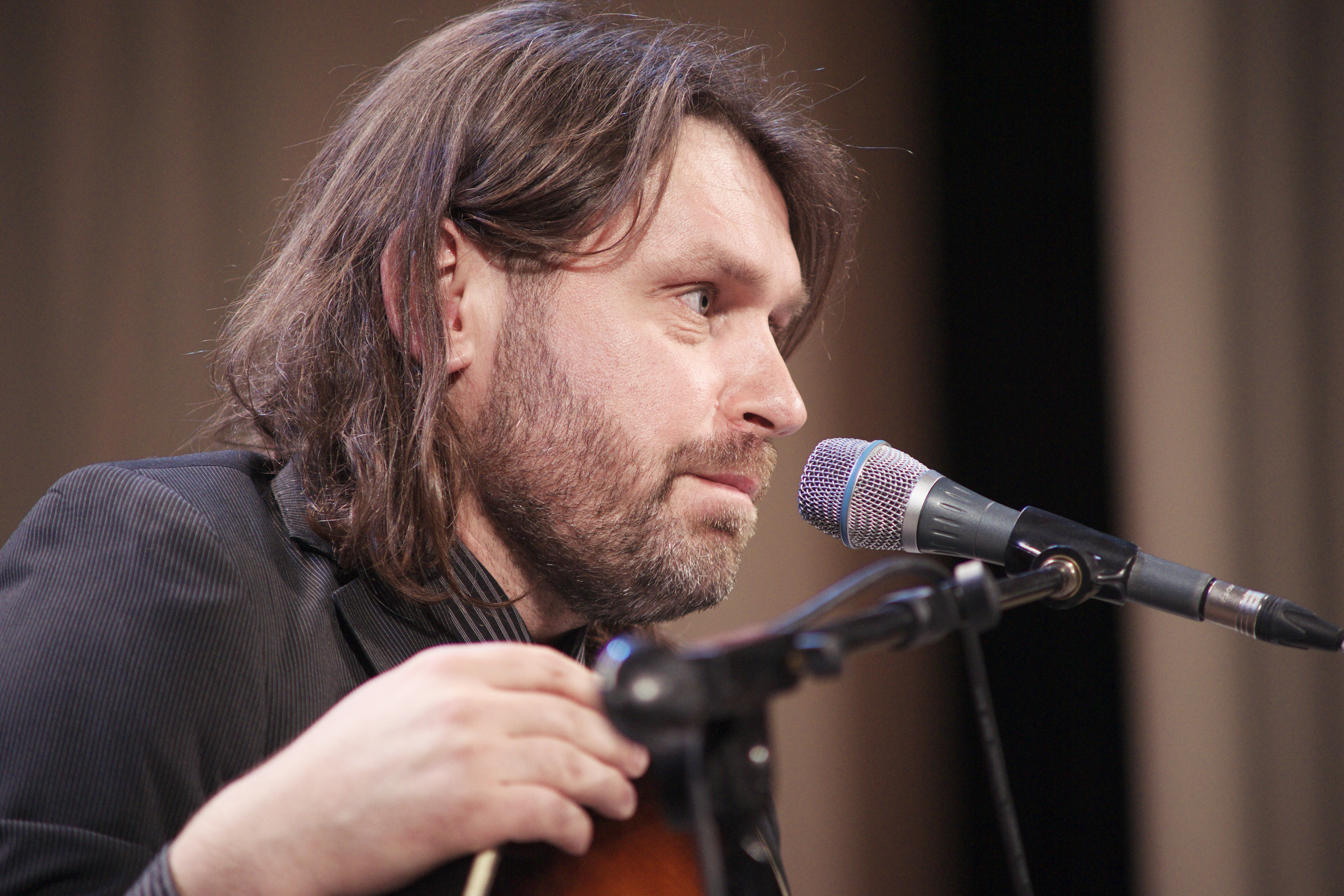 Zmicier Vajciuszkievicz